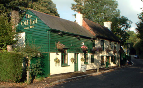 The Old Jail, Jail Lane, Biggin Hill TN16.